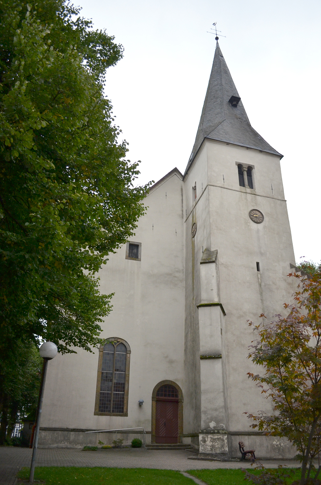 This is a photograph of an architectural monument., no. 1